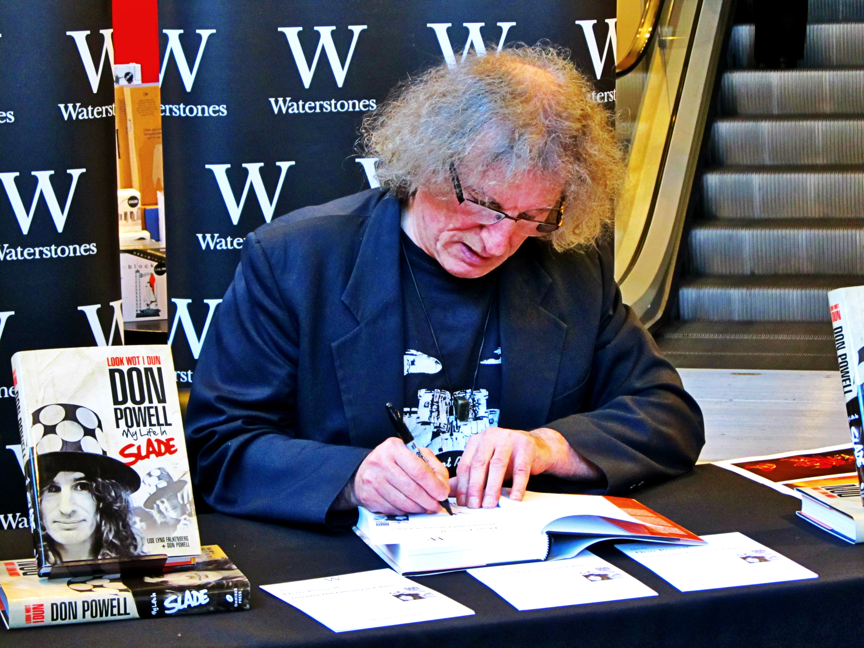 Don Powell signing copies of his autobiography Look Wot I Dun